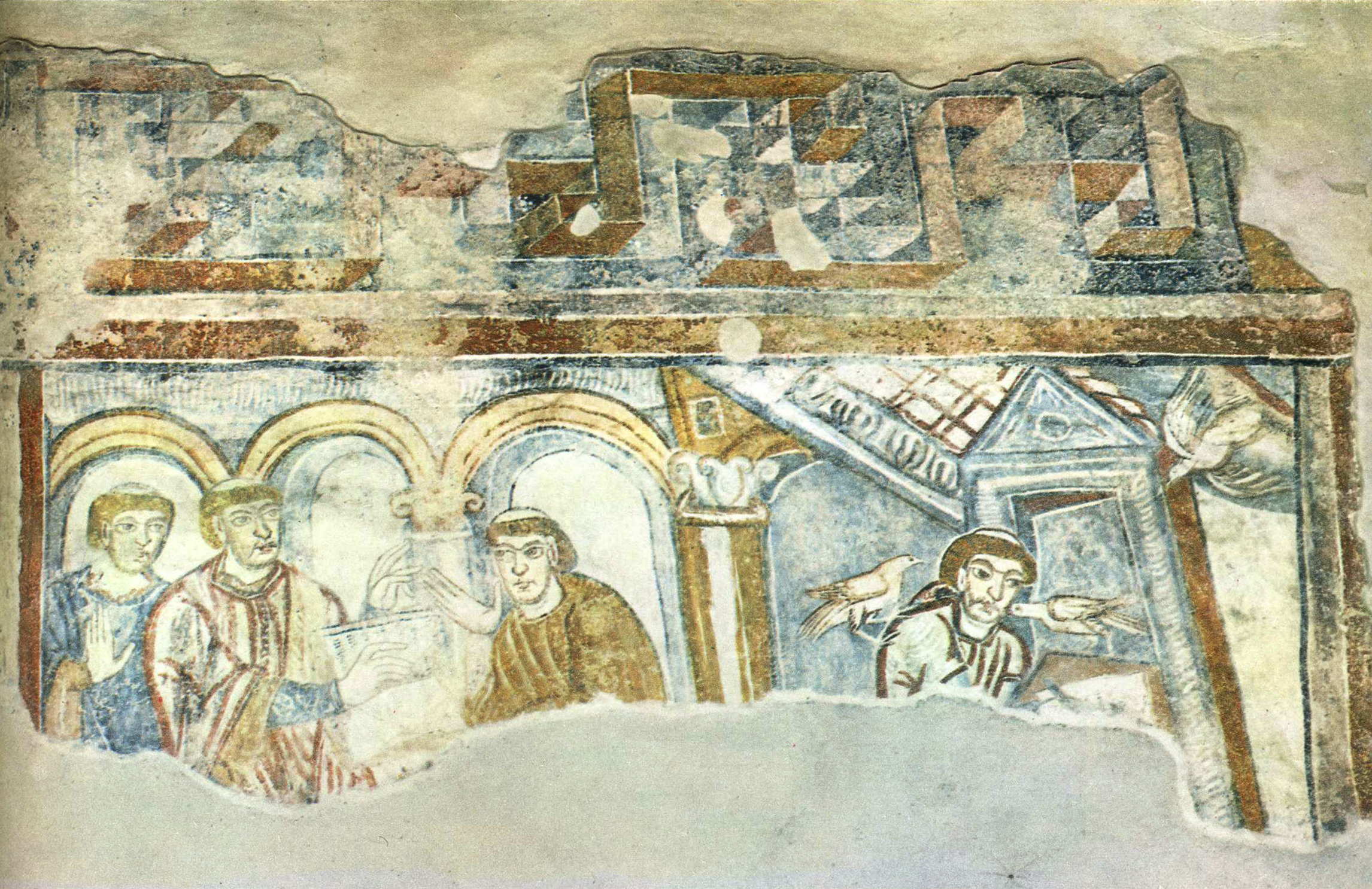 Scenes of saints' lives. Carolingian fresco in the Church of St. Benedict, Mals, Italy, ca. 825.